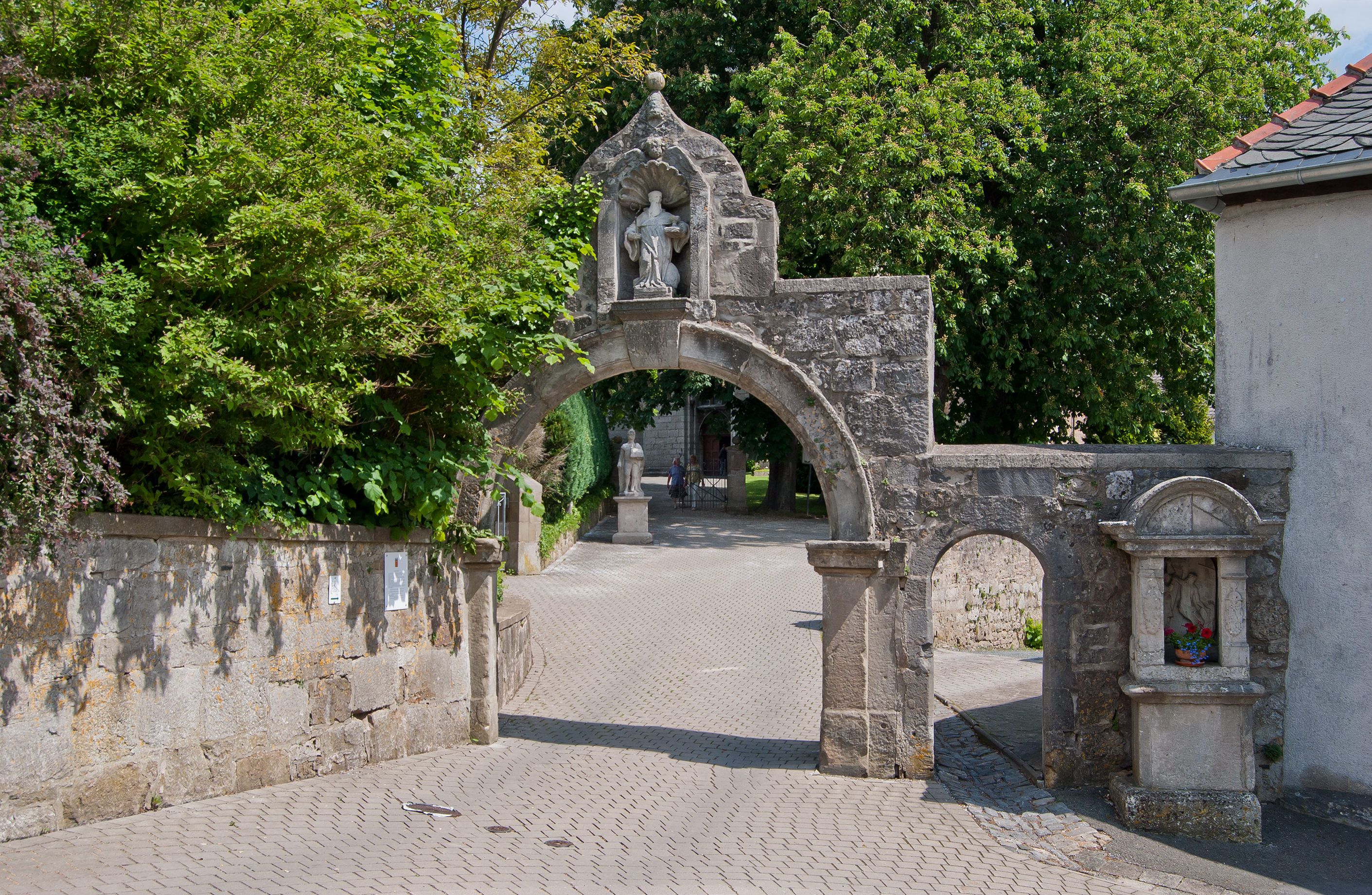 Marsberg (North Rhine-Westphalia, Germany) – district Obermarsberg – Benedict Arch This image shows a heritage building in Germany, located in the North Rhine-Westphalian city Marsberg (no. 46). This photograph was taken with a Nikon D3000